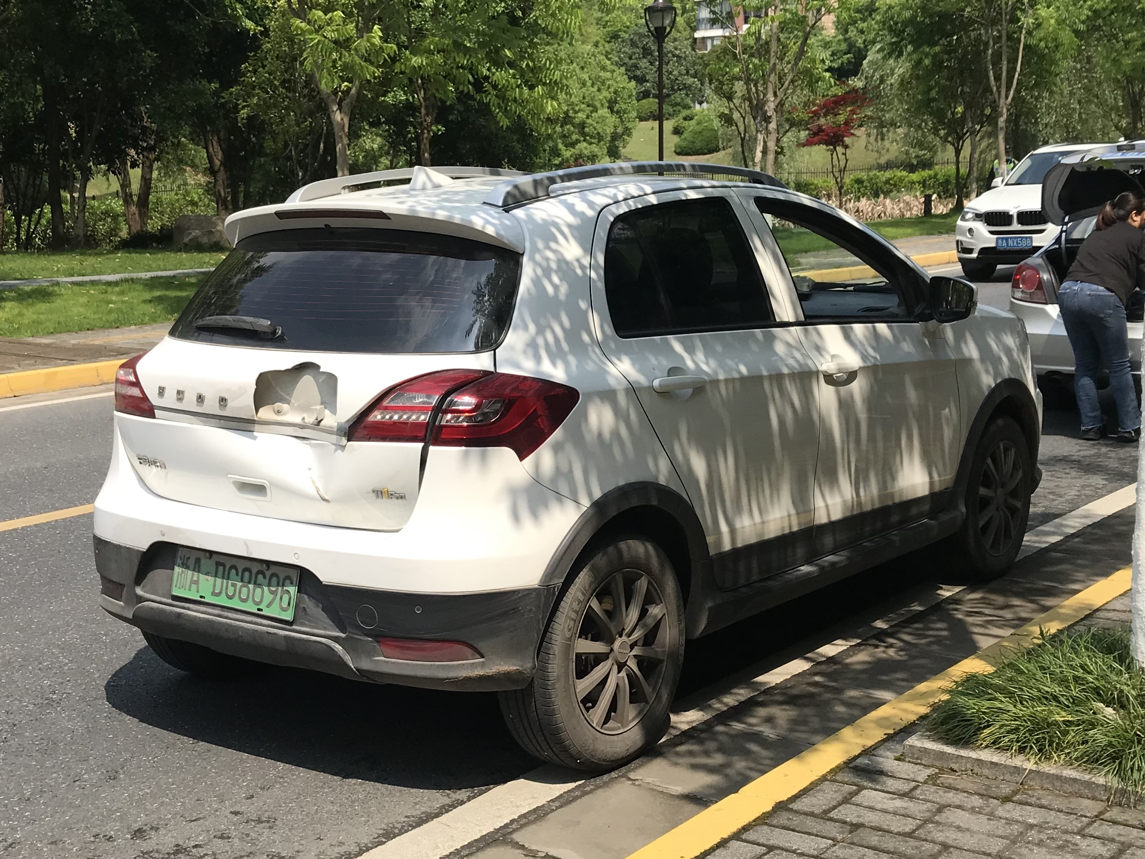 Yudo Pi1